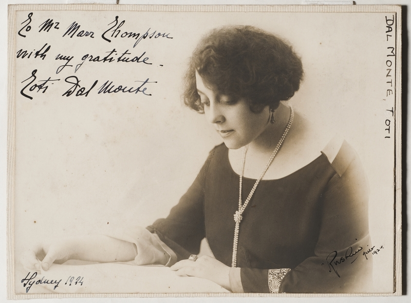 Toti Dal Monte, Italian coloratura soprano